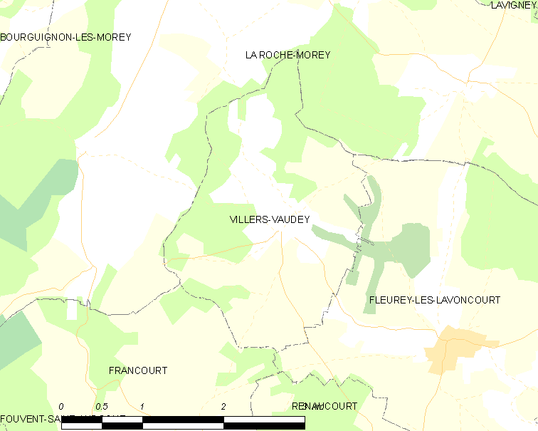 Map of French municipality